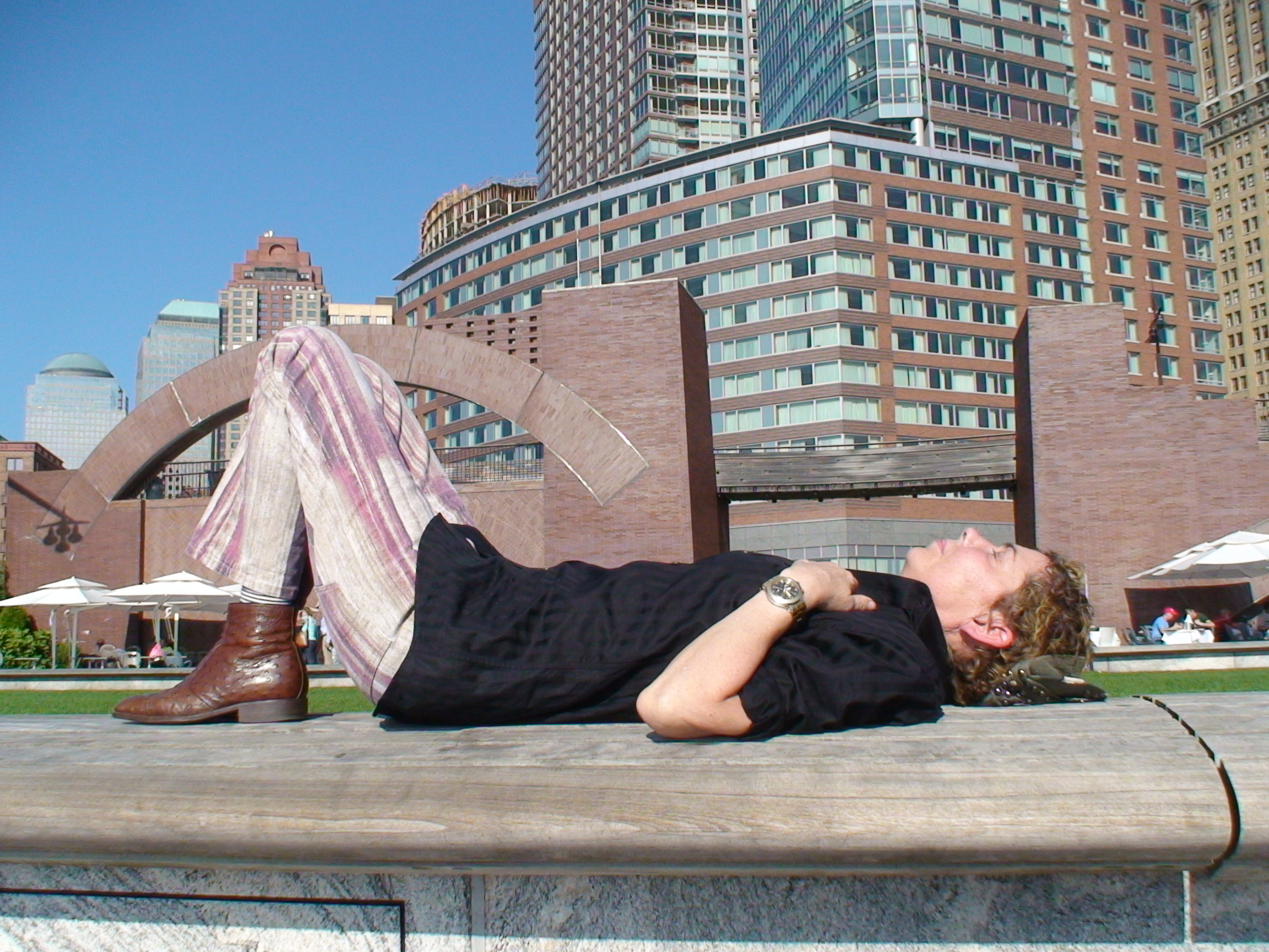 Photo of Isa Genzken taken at Battery Park City.